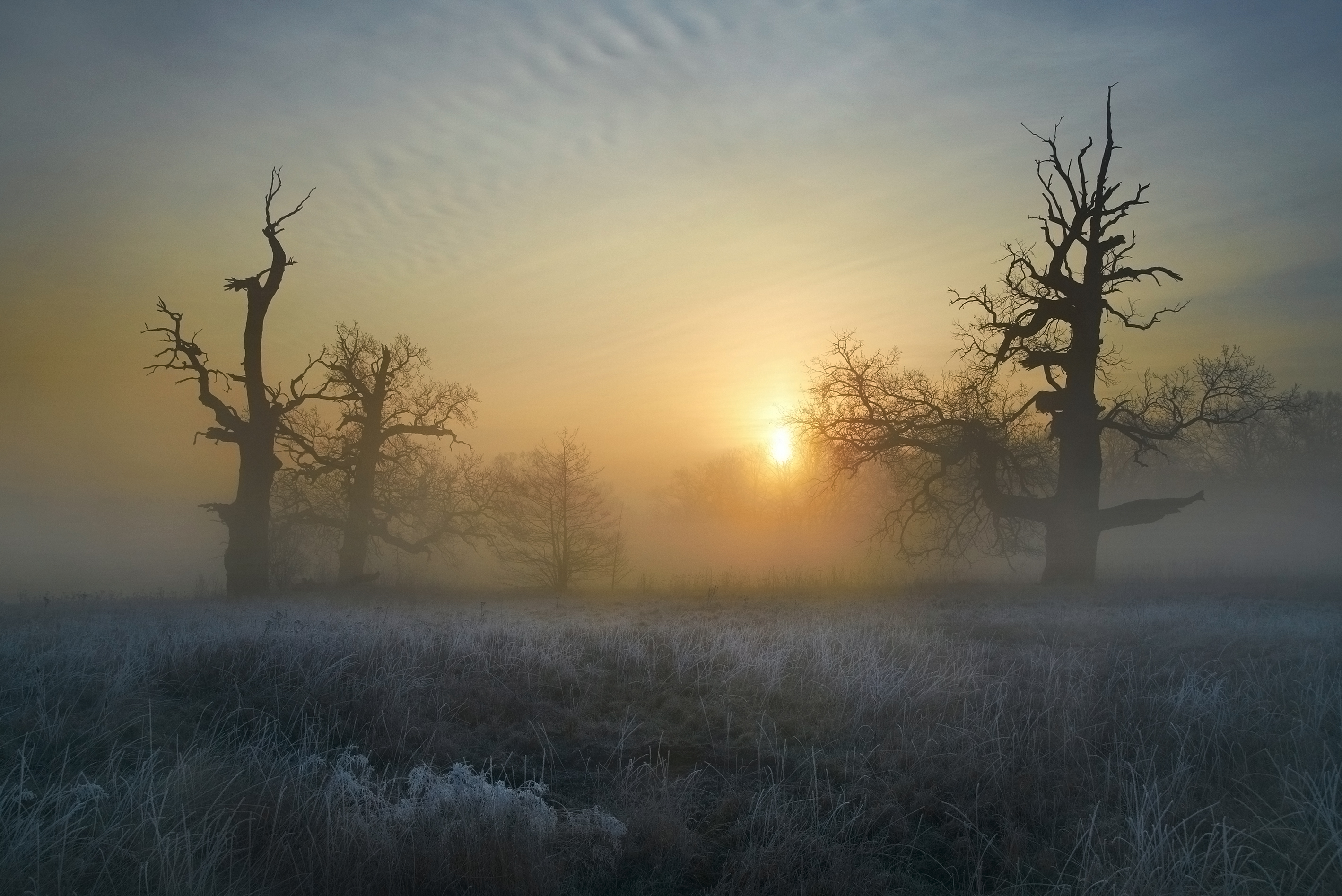 Oaks in Rogalin Landscape Park. Greater Poland Voivodeship, Poland